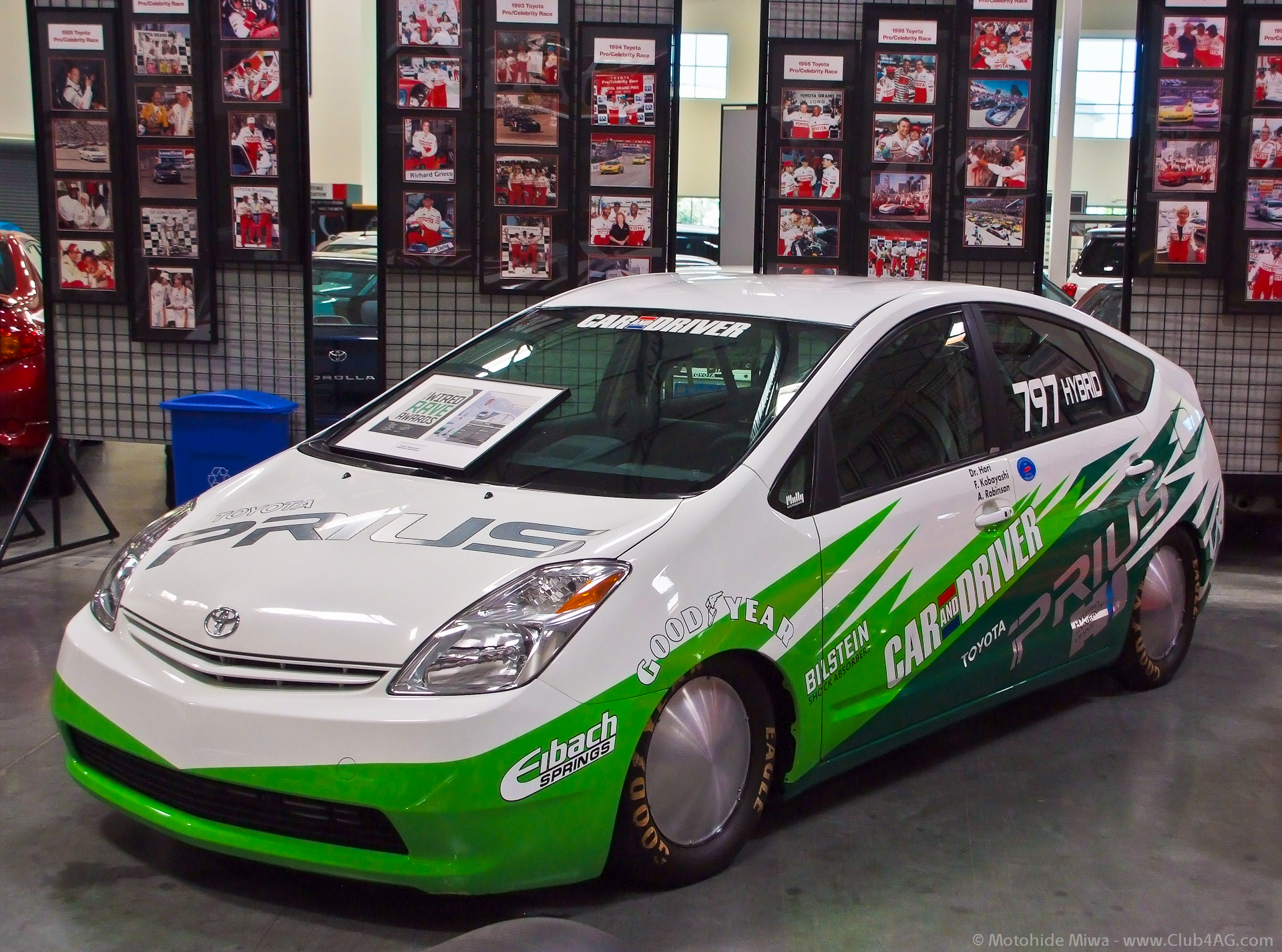 Prius Bonneville Land Speed Record Car